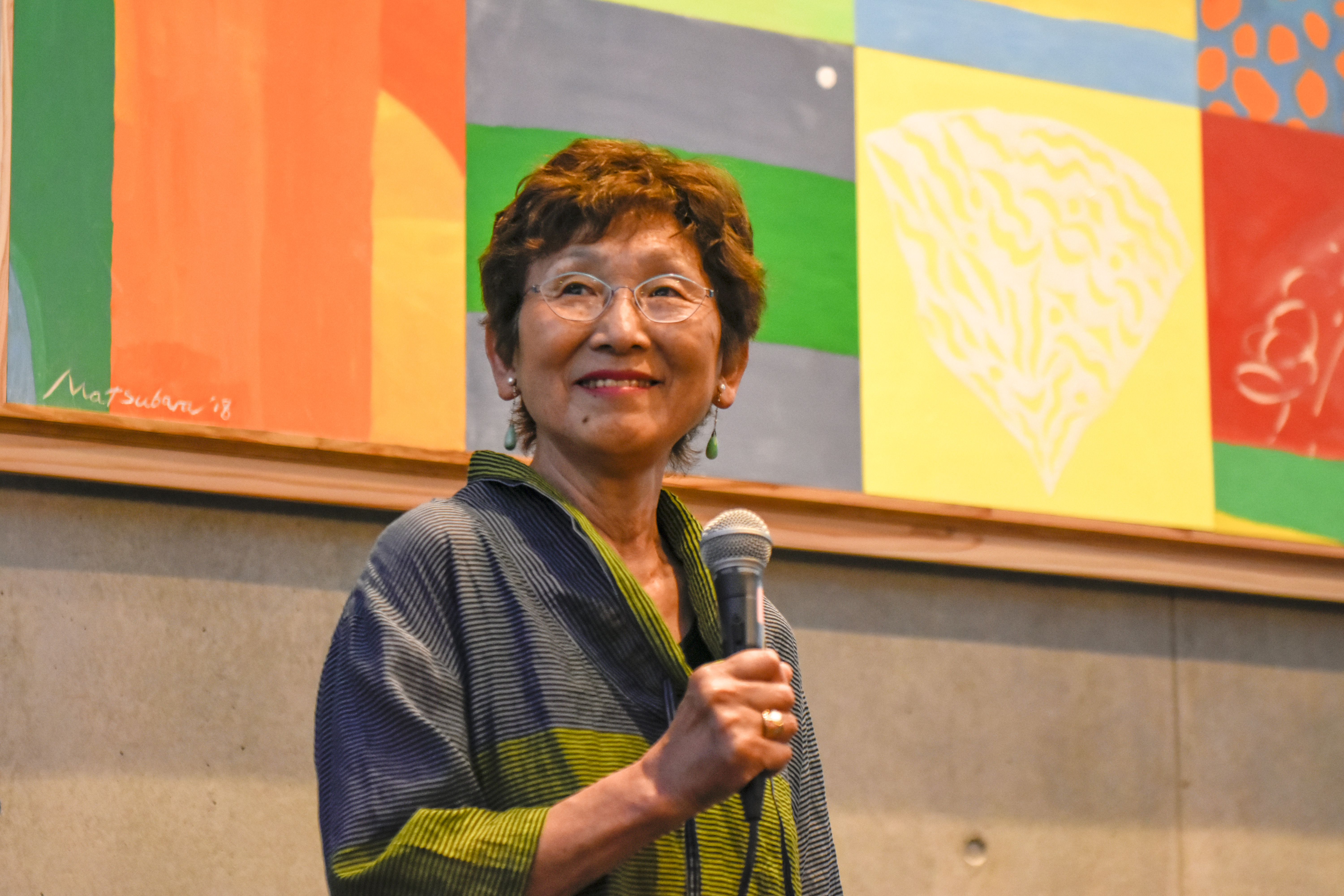 Naoko Matsubara presents here new mural, "Chromatic Convergence" with President Peter Gruss and the board of Governors